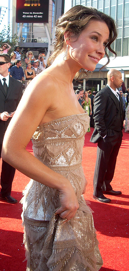 Actress Evangeline Lilly at 60th Annual Emmy Awards in 2008